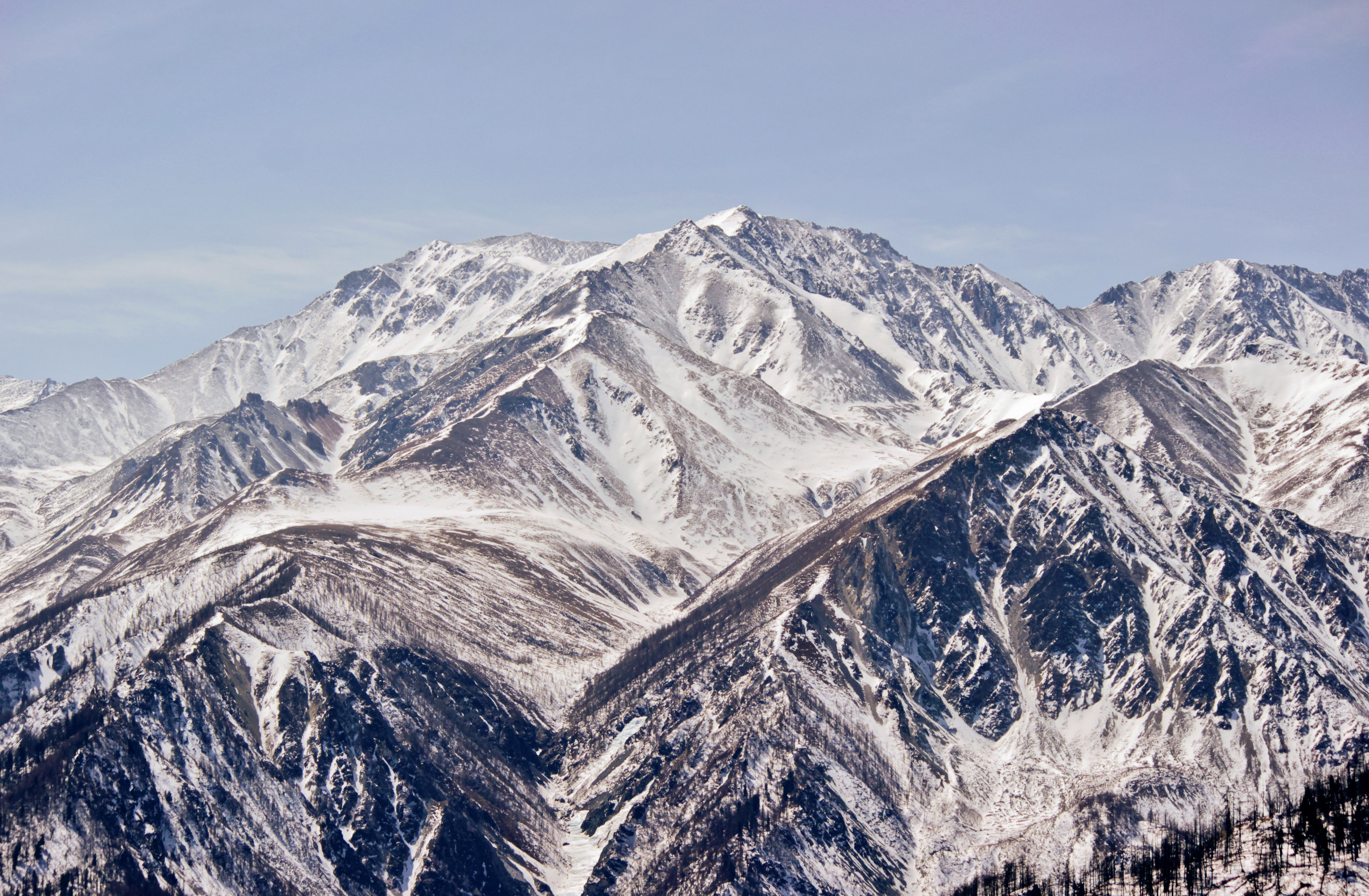 View from Mount Nukhu-Daban to Mount Munku-Sardyk (Mönkh Saridag) at the East Sayan. Okinsky ditrict of Buryatia, Russia.